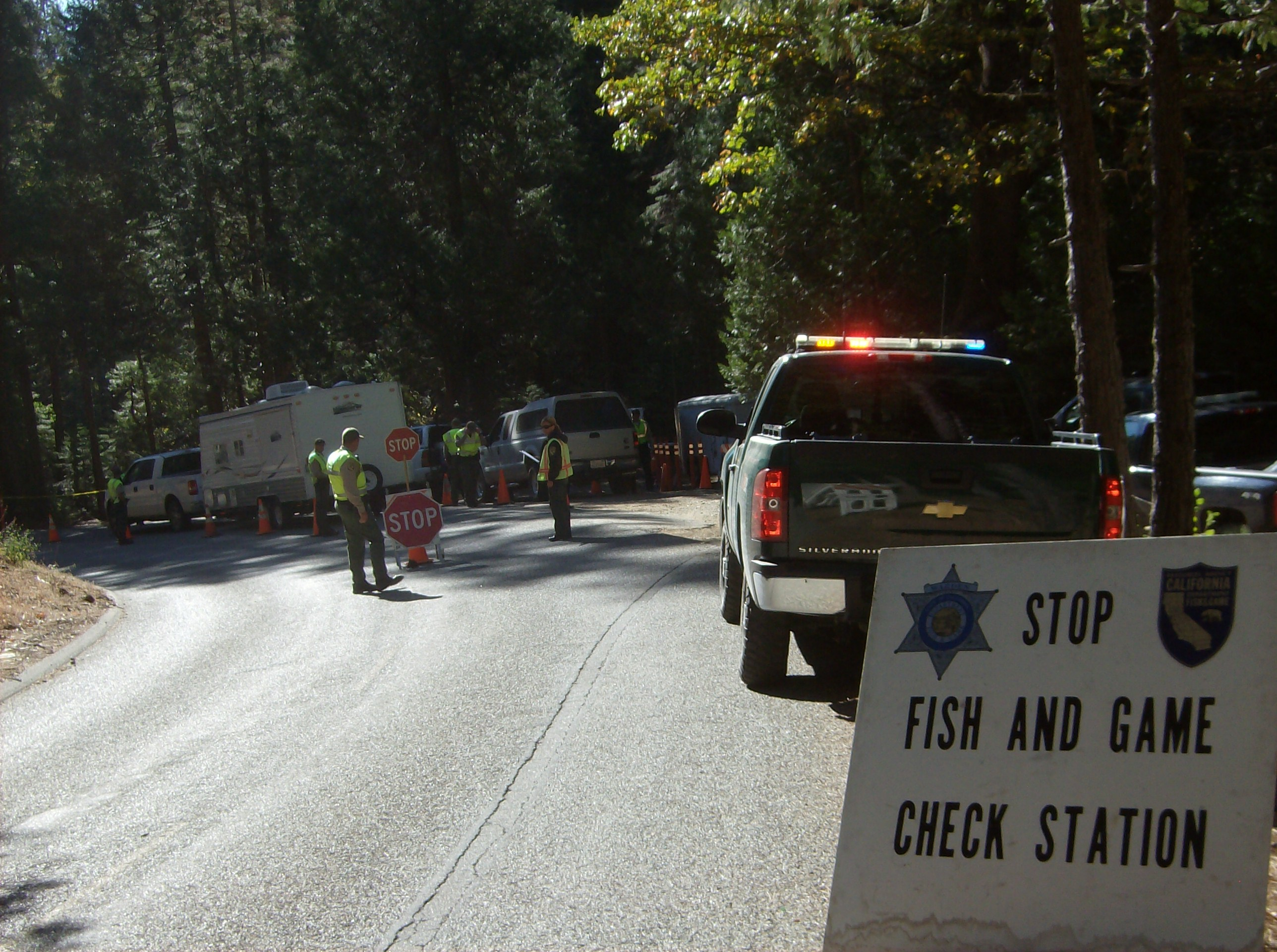 Deer hunting checkpoint by the California Department of Fish and Wildlife (CDFW) on Beasore Road, Madera County, CA.